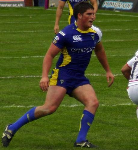 Ben Harrison